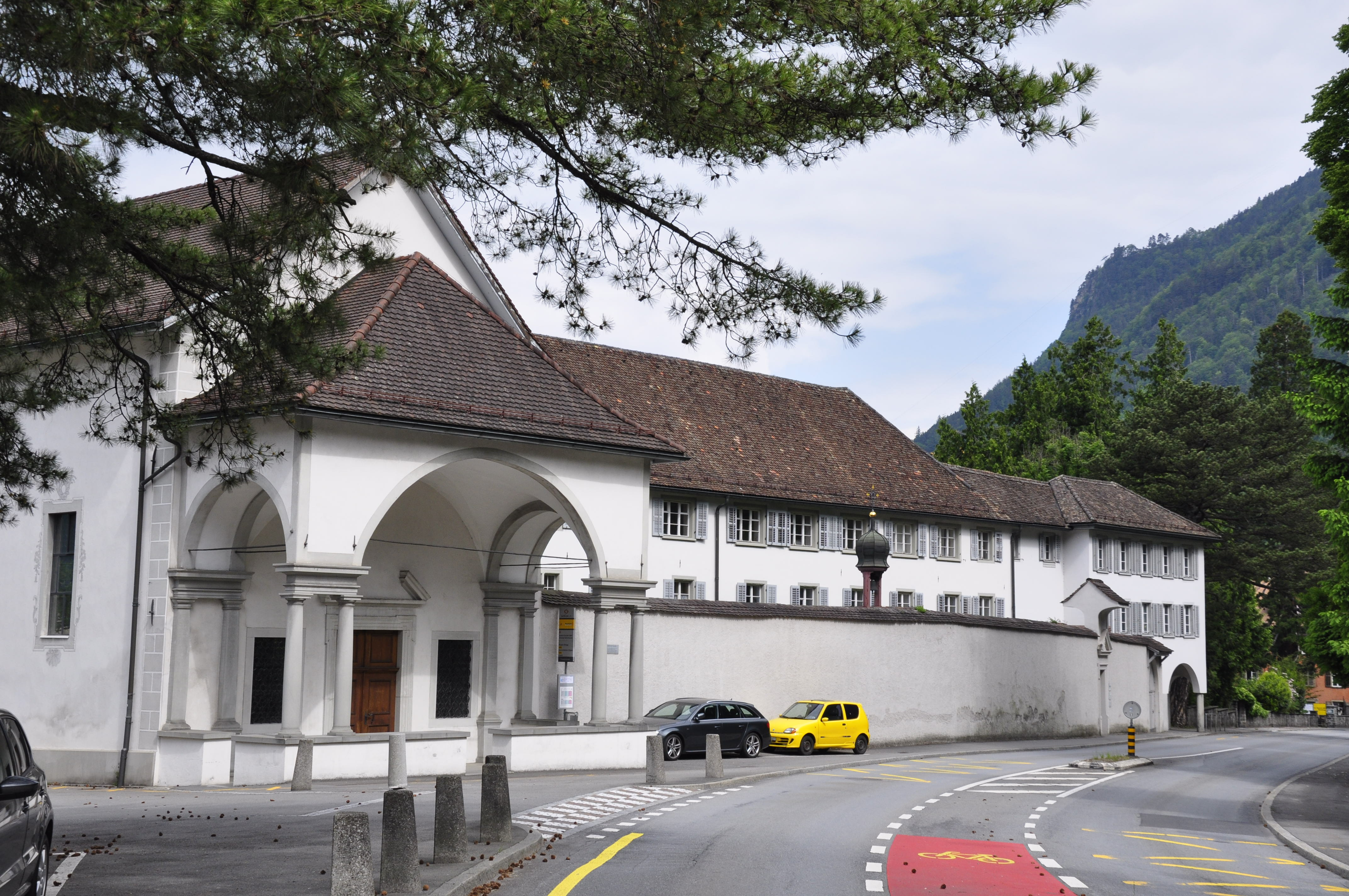 Kapuzinerinnenkloster St. Karl